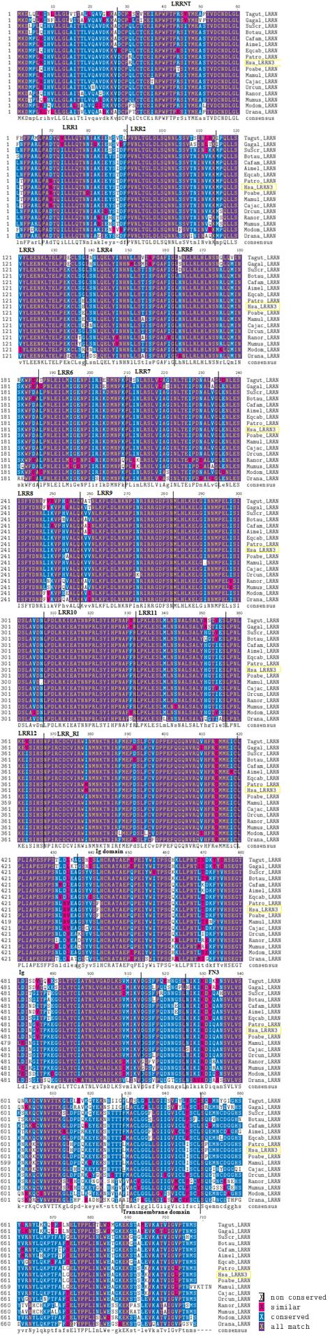 Image displays the highly conserved regions of the LRRN3 gene.